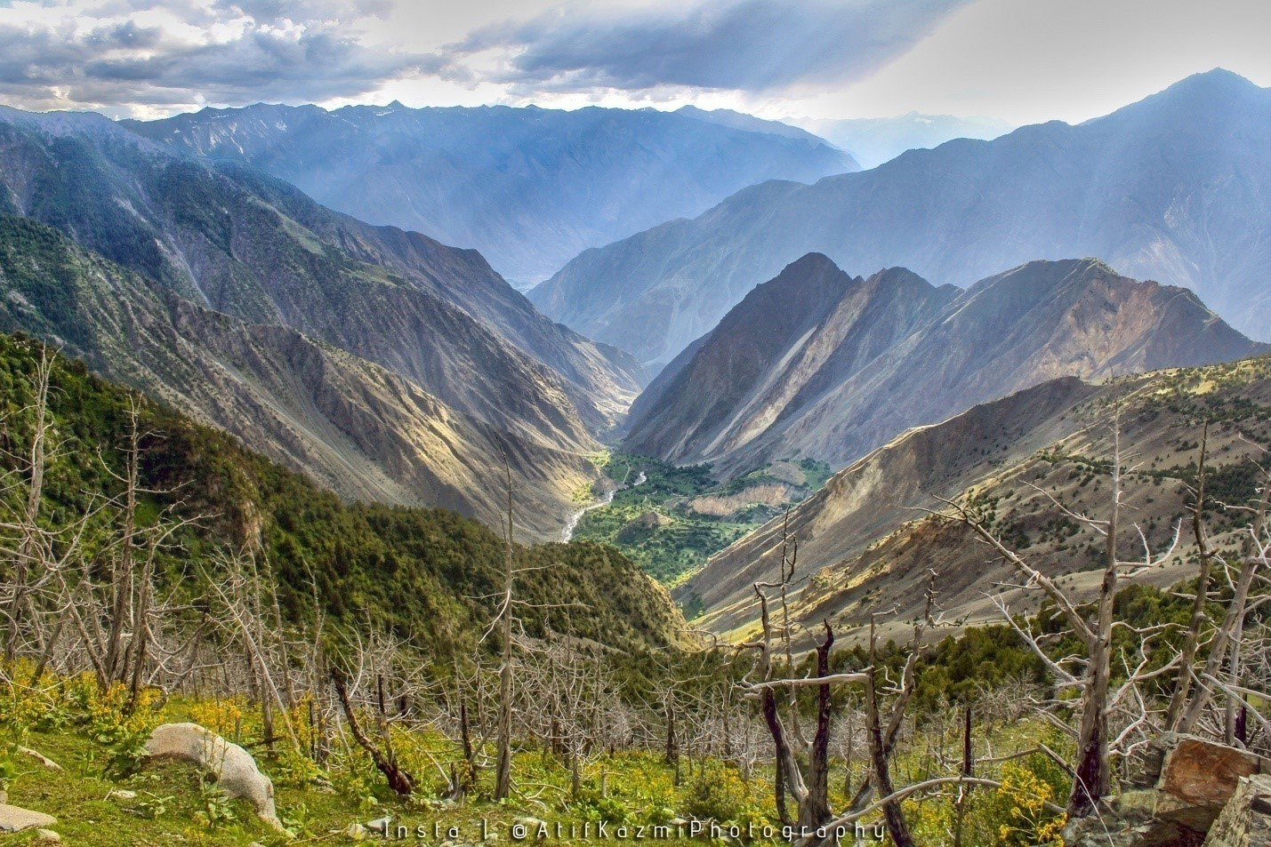 bird eye view of lower bagrote gilgit